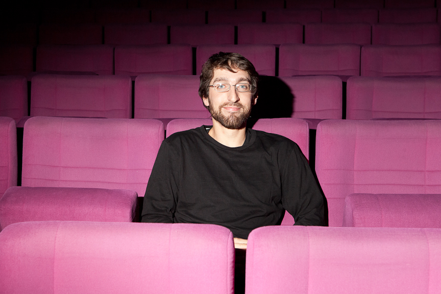 Jakub Dvorský at Game City.